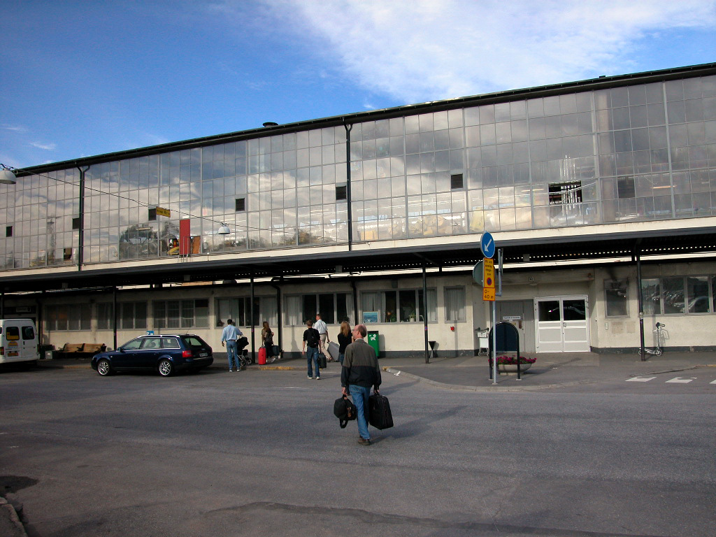 The entrance to the terminal building at Stockholm-Bromma Airport in Stockholm, Sweden.